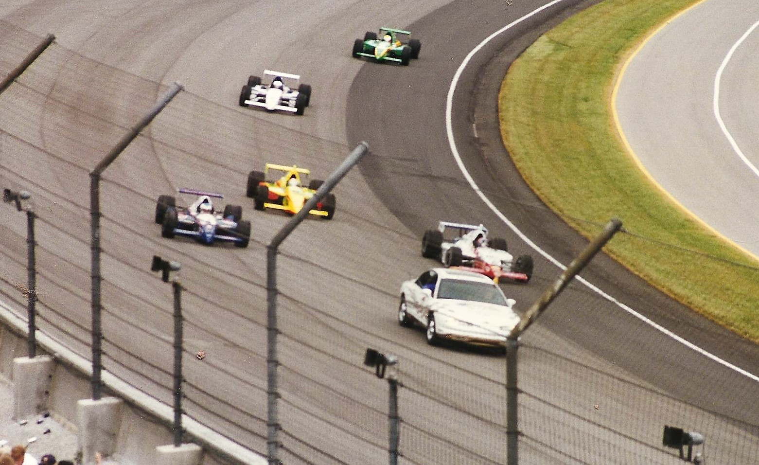 Pace laps of the 1997 Indianapolis 500